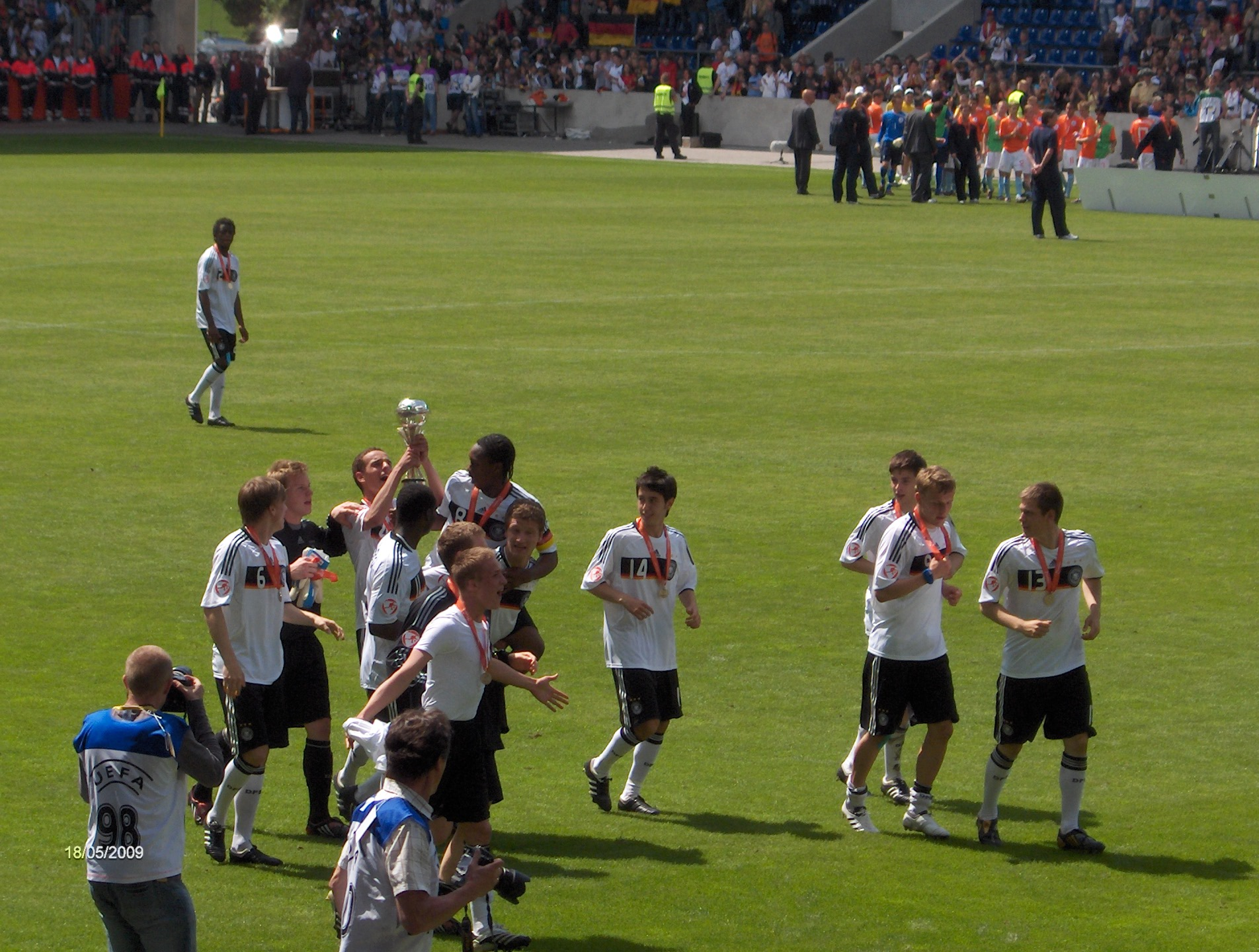 The German boys with the cup for the "Under 17 European Champion" on their lap of honour